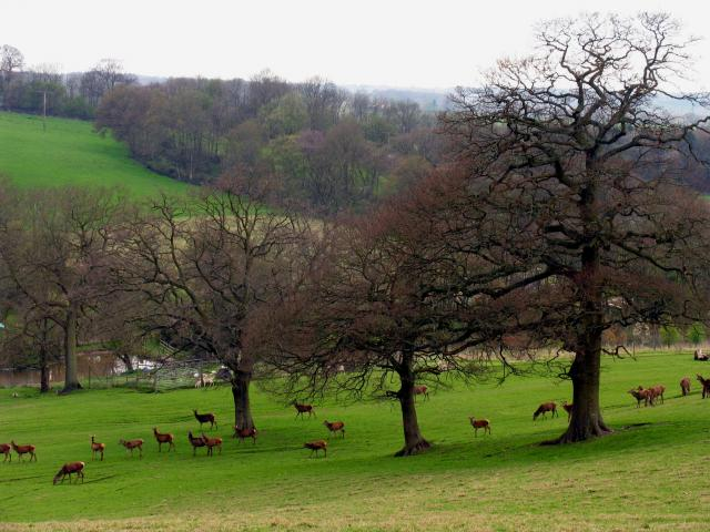 Deer in Bucklebury Farm Park. Situated in the south western section of the grid square.